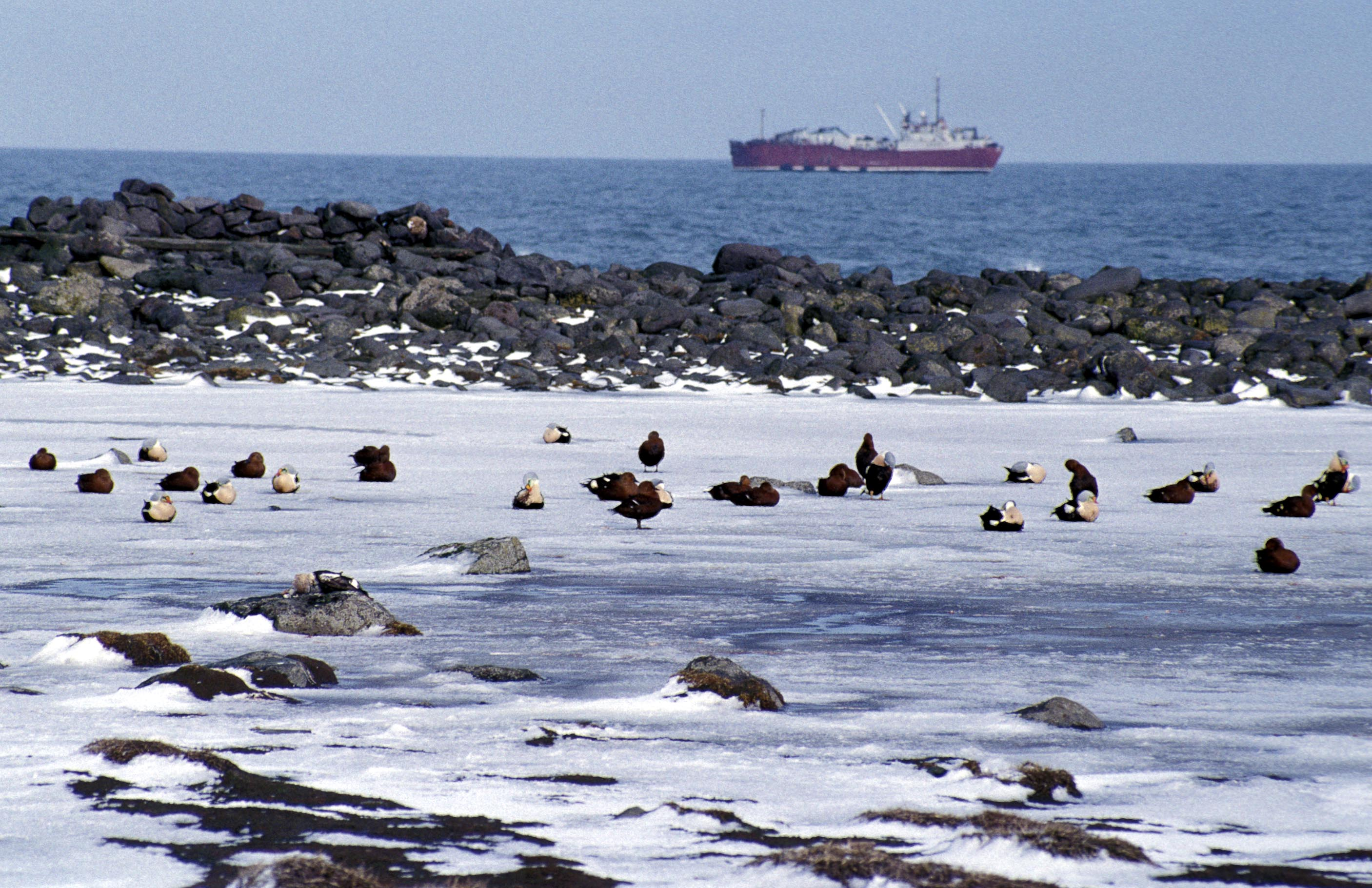 King Eiders (Somateria spectabilis), oiled with freighter